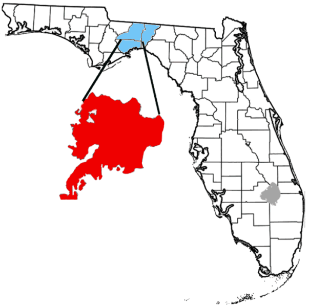 Representation of St. Marks Formation in the Florida Panhandle